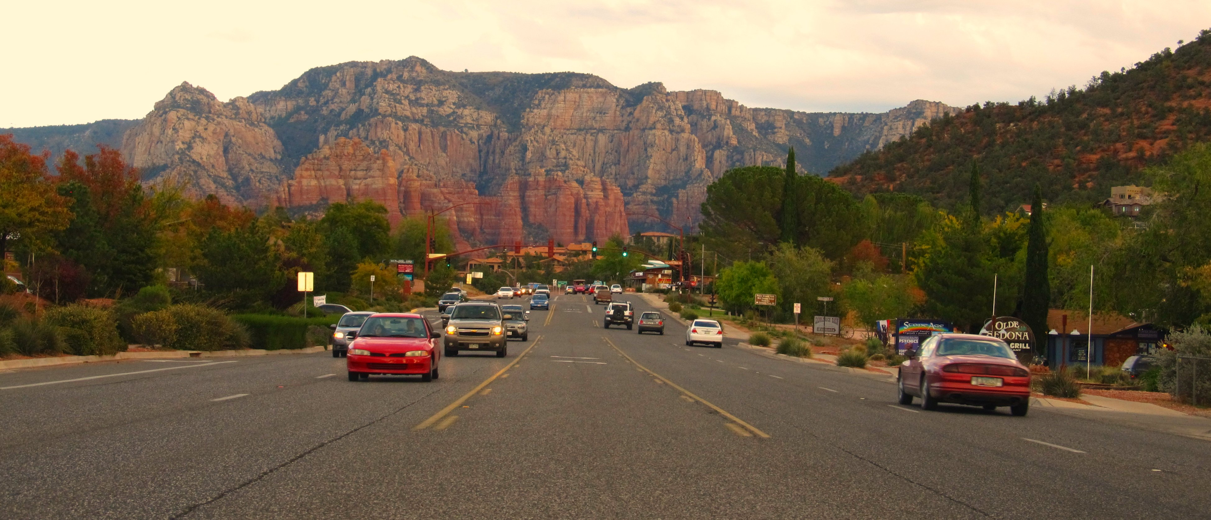 Downtown Sedona - Route 89A